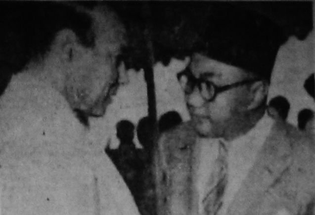 Ruslan Abdulgani, speaking with an Egyptian diplomat